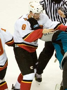 Brad Ference fighting Steve Bernier. Steve Bernier going in to protect Milan Michalek on the ground. see also Image:Steve_Bernier_vs_Brad_Ference.jpg